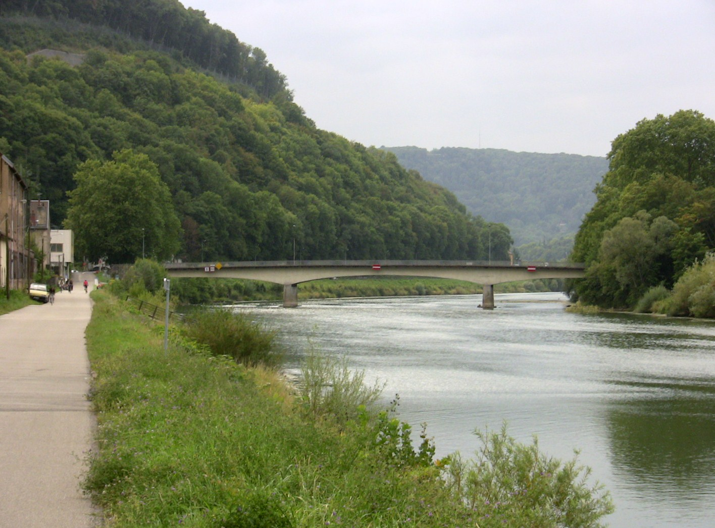 Velotte bridge, located in Besançon (Doubs, France)